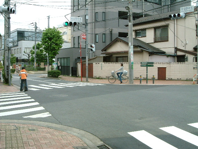 a photo of Urban Subsidary Route 255, Umejima, Adachi-ward, Tokyo.